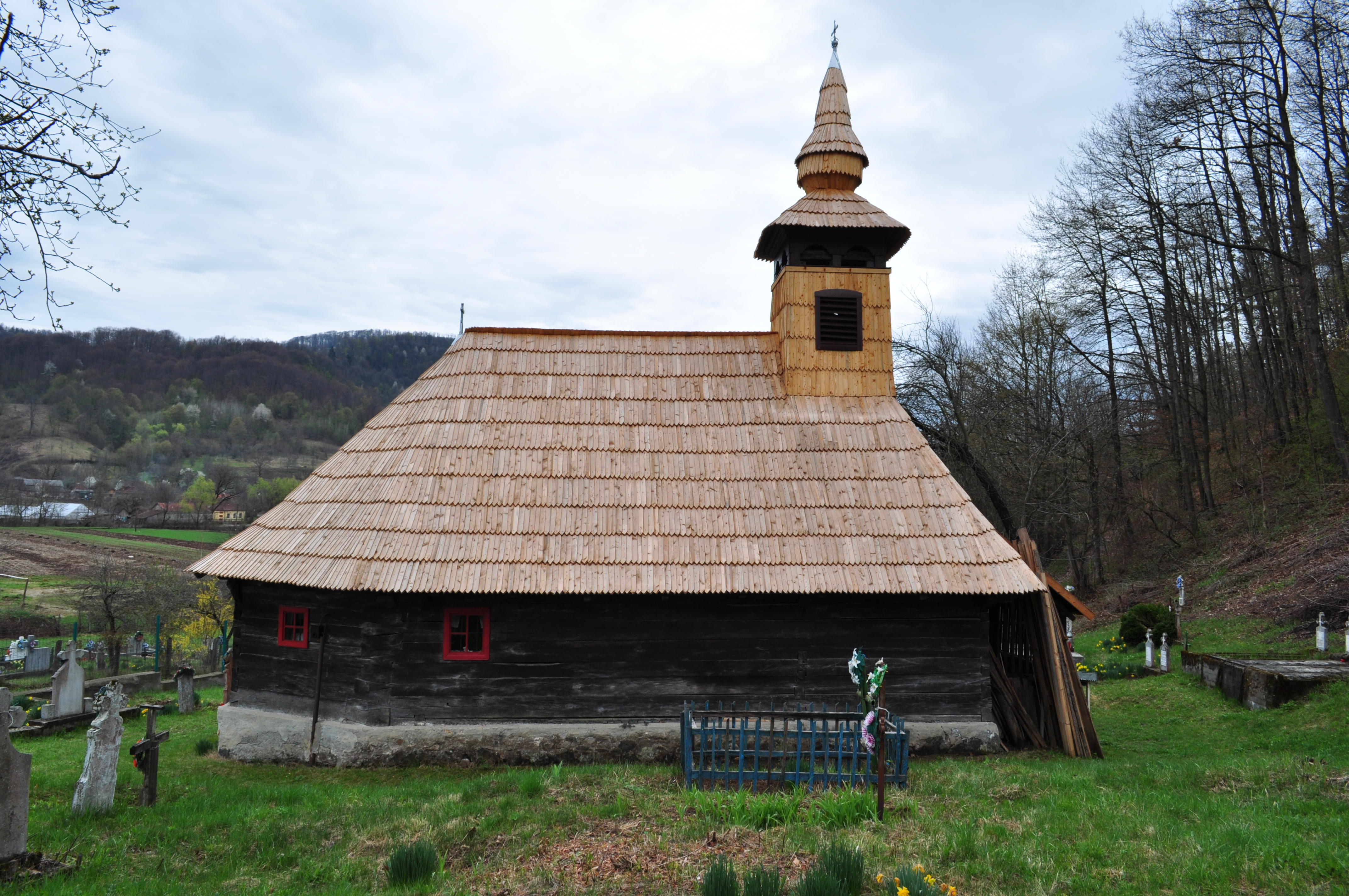 The wooden church in Cerbia, Hunedoara county